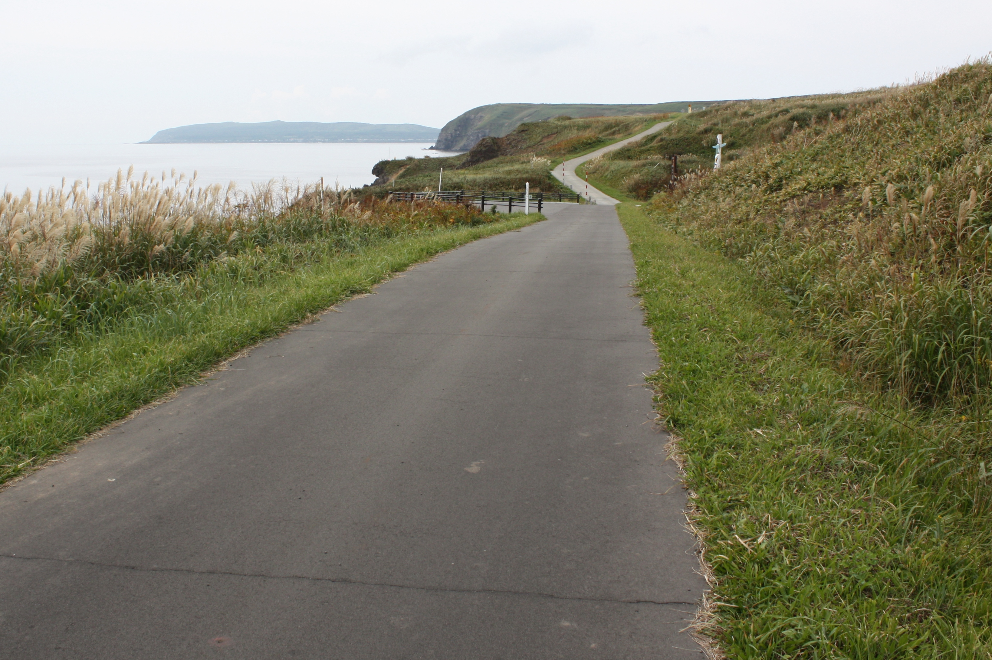 Hokkaidō Prefectural road No. 255 in Yagishiri Island (Haboro, Hokkaidō, Japan)